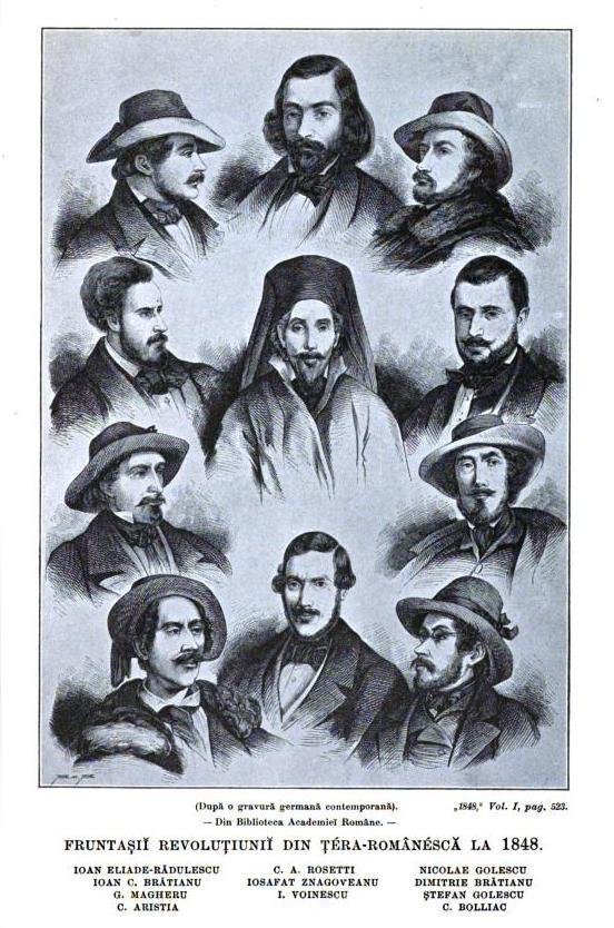 Fruntaşii Revoluţiei din Ţara Românească la 1848, image from Anul 1848 in Principatele Române - 1821-1848 Iunie 20 by Ioan C. Brătianu, volume I, published by Institutul de Arte Grafice Carol Göbl in 1902, page 523.